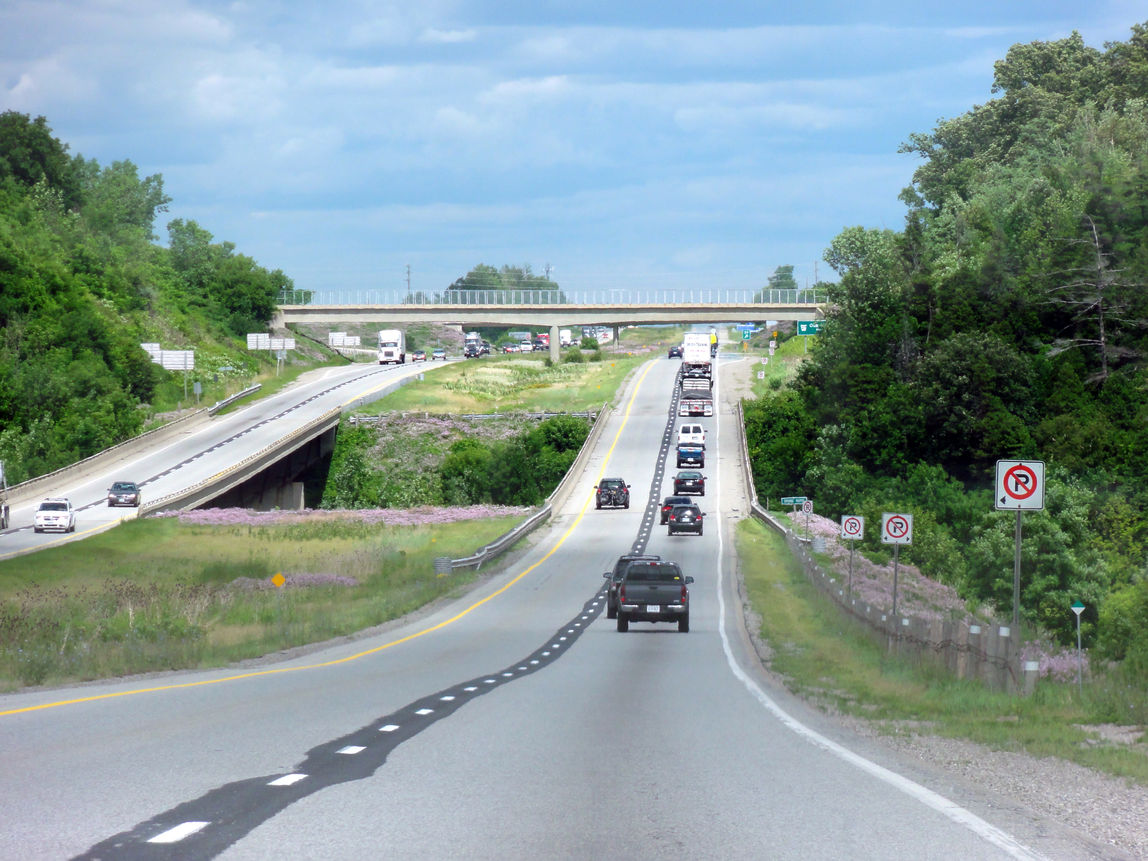 Eastbound on Highway 403 near the Grand River, west of Brantford, Ontario, Canada.